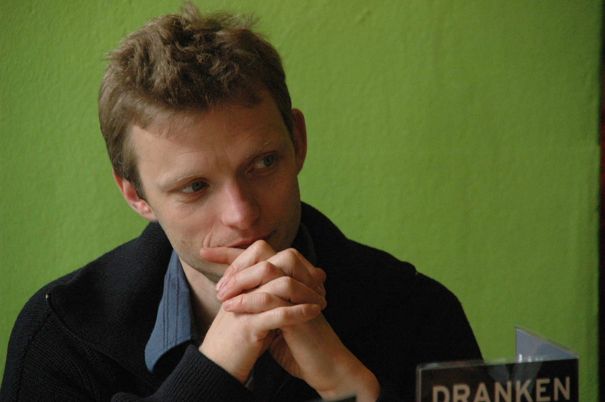 Jaap Krol, Frisian author